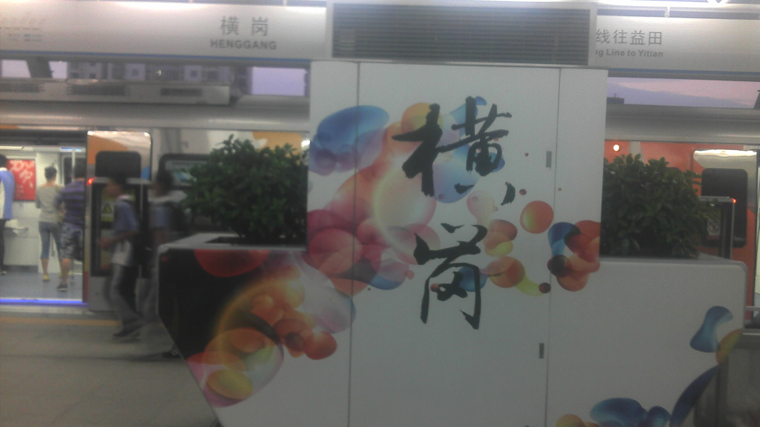 This photo was taken as Oct 14, 2011.